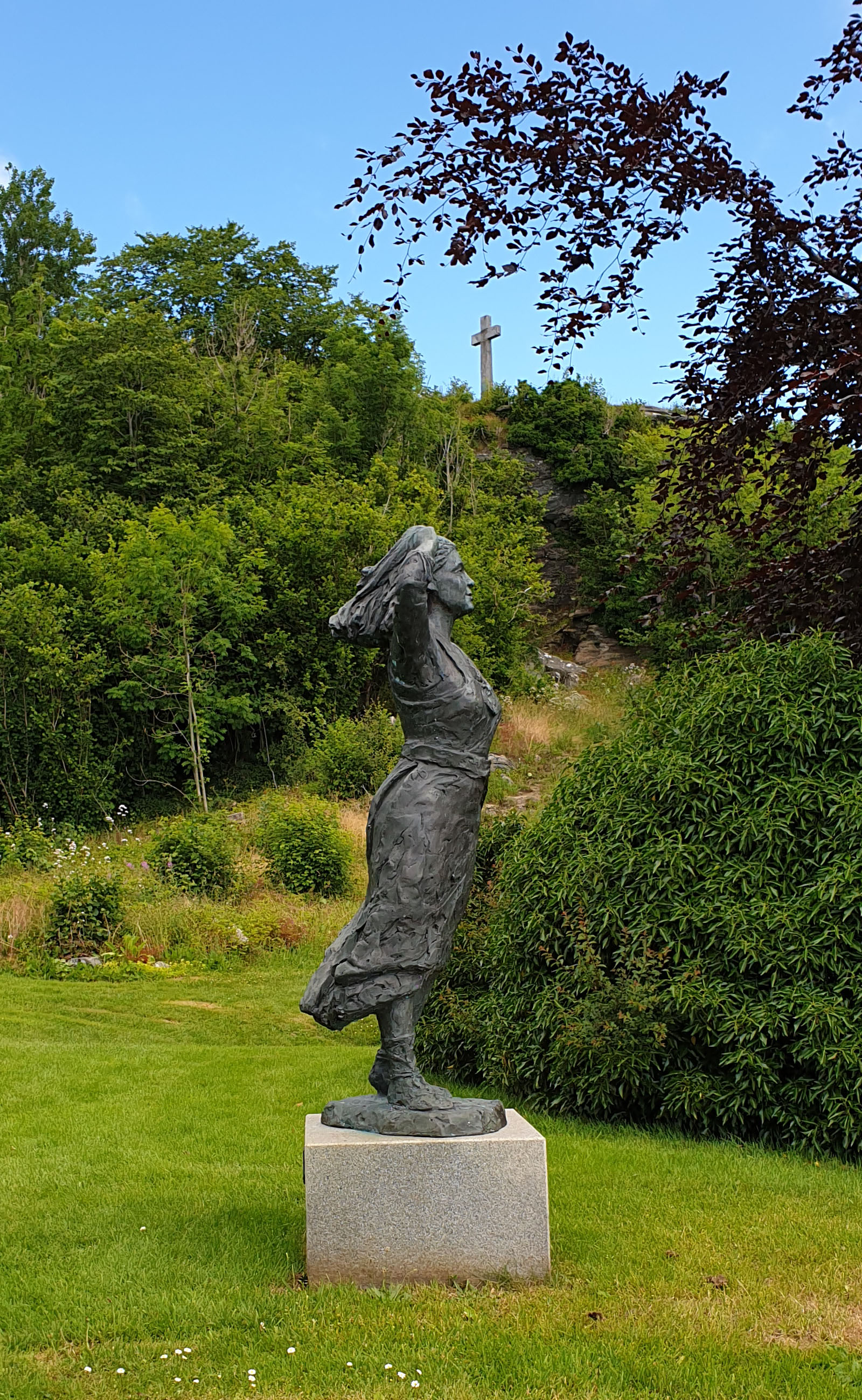 Statue of Tora Mosterstong